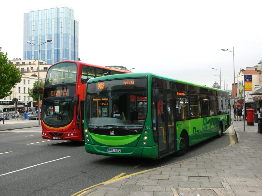 The green bus is BX07 AYU, a Volvo B7RLE with Plaxton Centro bodywork operating form Wessex Connect on a park and ride service from Avonmouth to Bristol. It is being overtaken in the City Centre by another Wessex Connect park and ride vehicle, FJ57 CZC, a Volvo B9TL with Wight Gemini Eclipse bodywork on a service from Long Ashton.